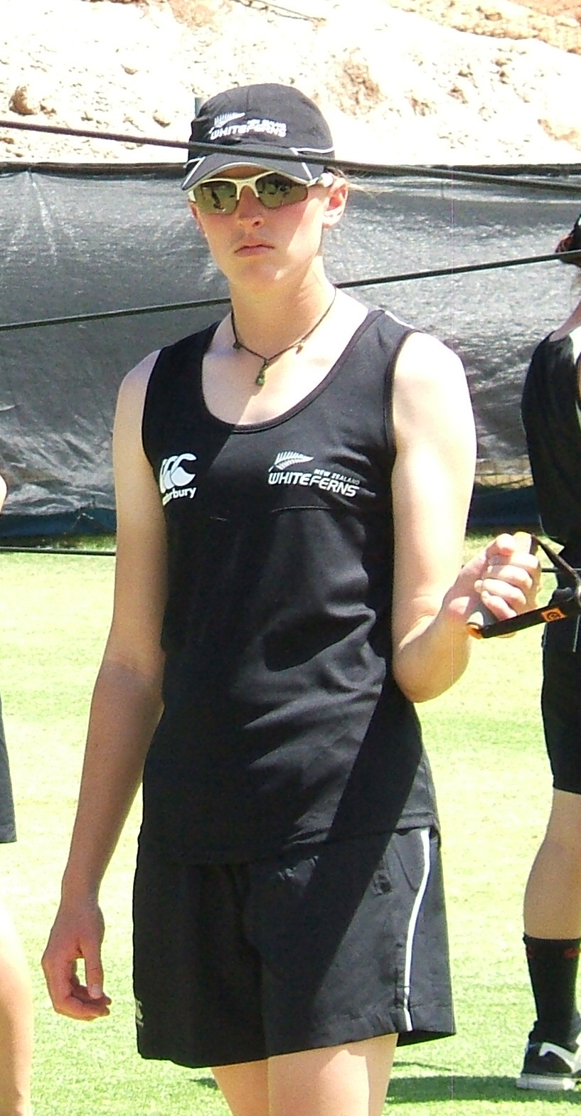 Named person engaging in named action at Adelaide Oval nets/training ground